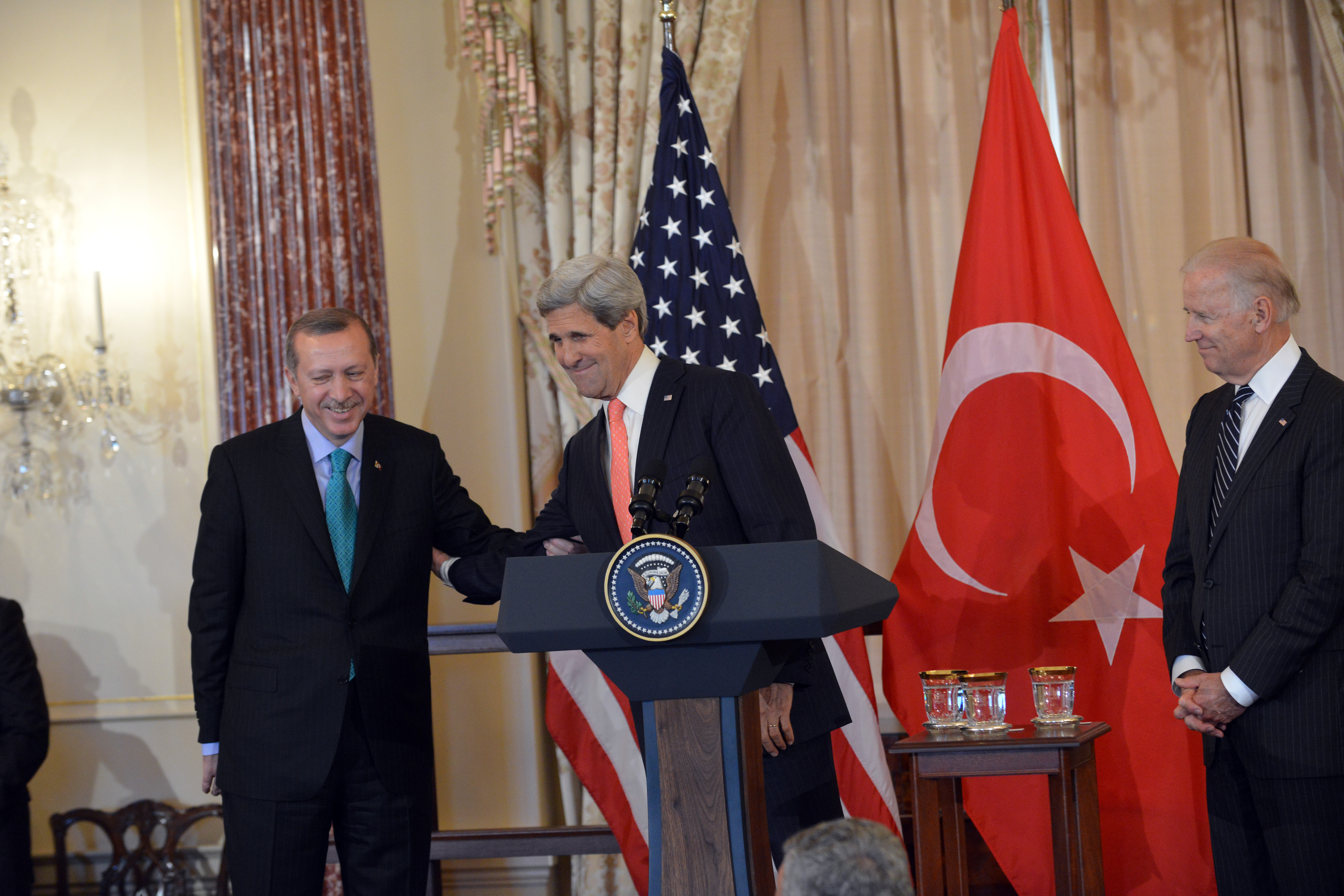 U.S. Secretary of State John Kerry, with U.S. Vice President Joseph Biden, right, delivers remarks in honor of Turkish Prime Minister Recep Tayyip Erdogan at the U.S. Department of State in Washington, D.C., on May 16, 2013. [State Department photo/ Public Domain]